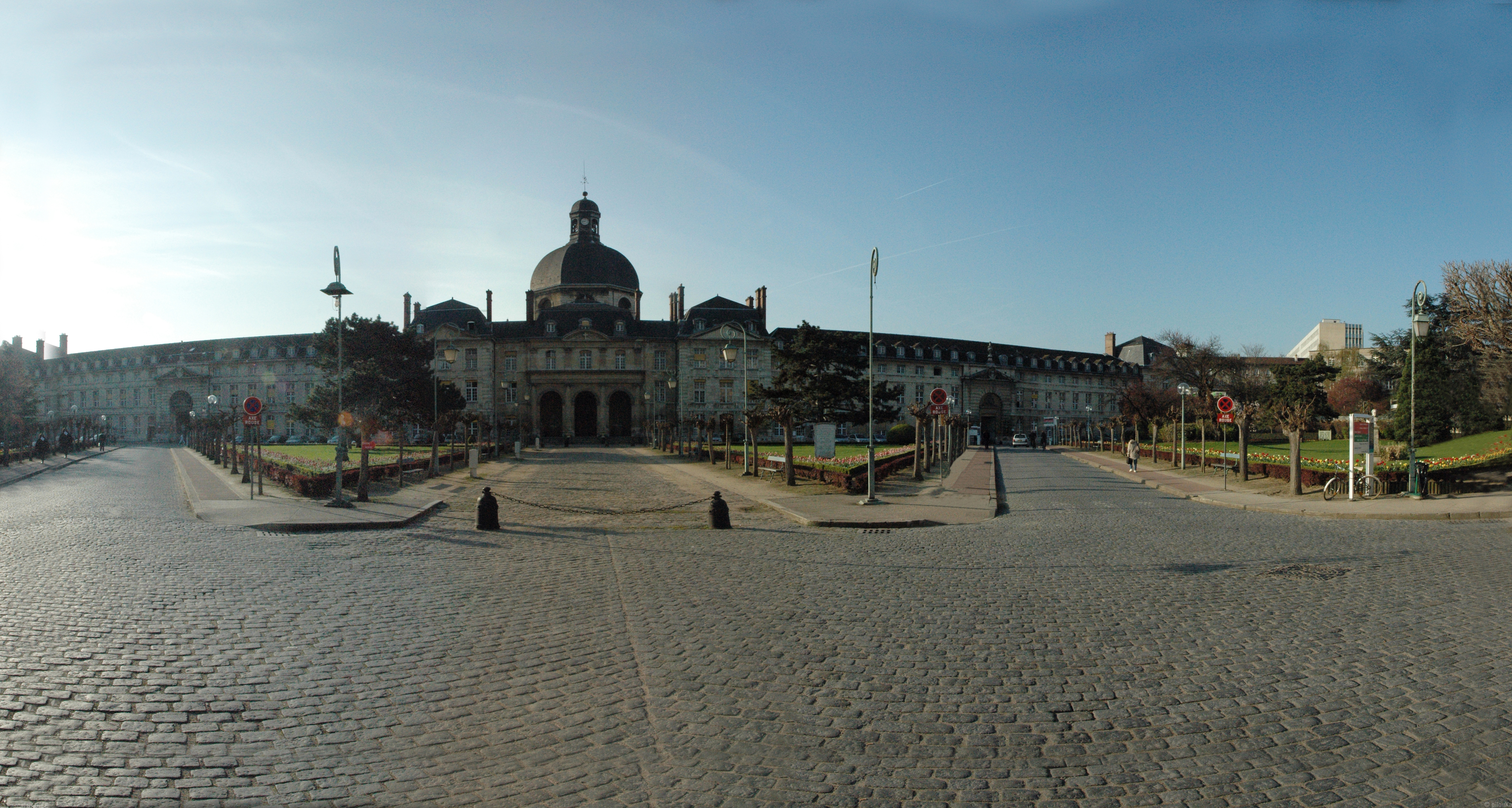 Salpétrière-Pitié